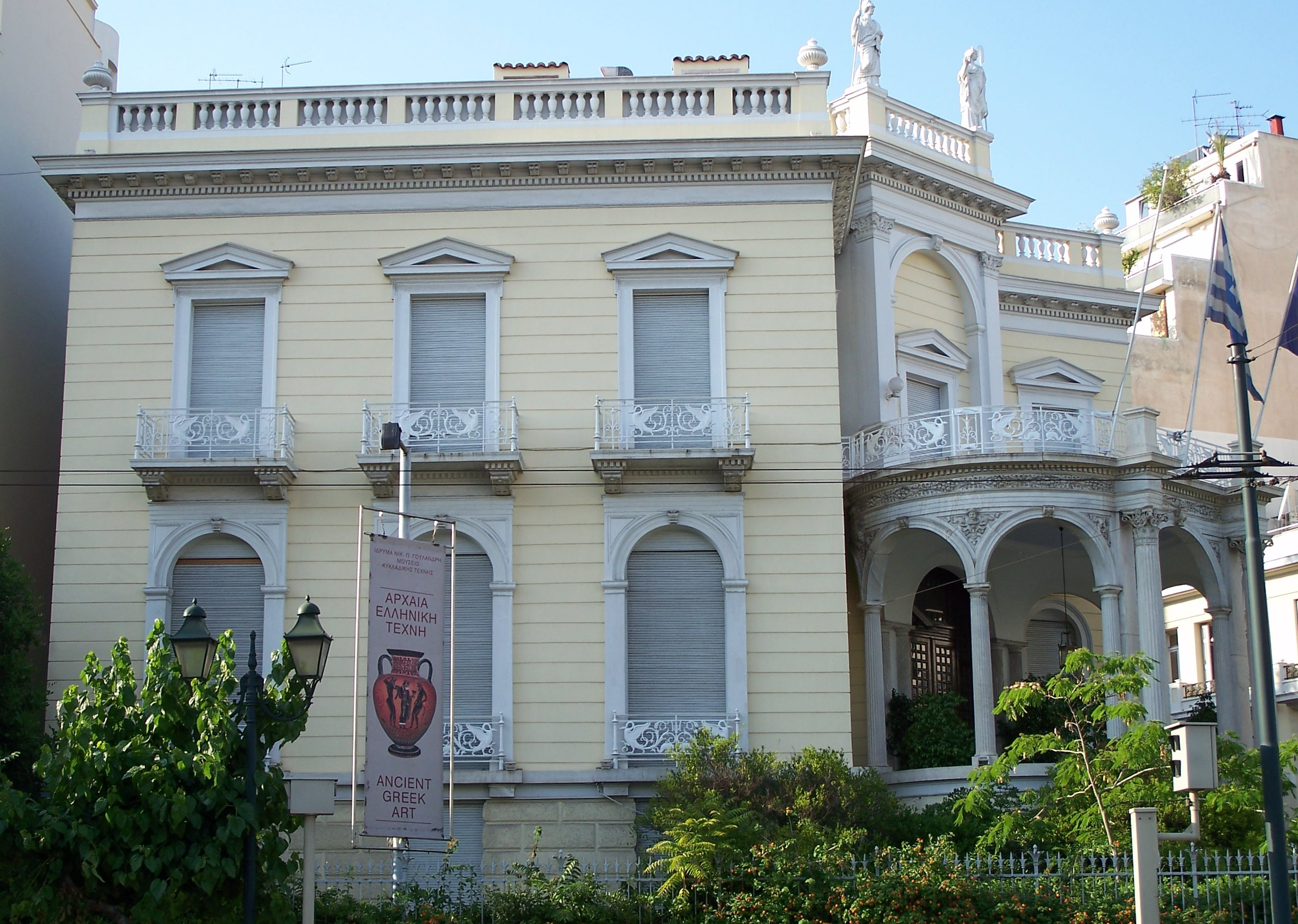 The Stathatos Mansion (Μέγαρο Σταθάτου) in Athens, house of Benaki museum.